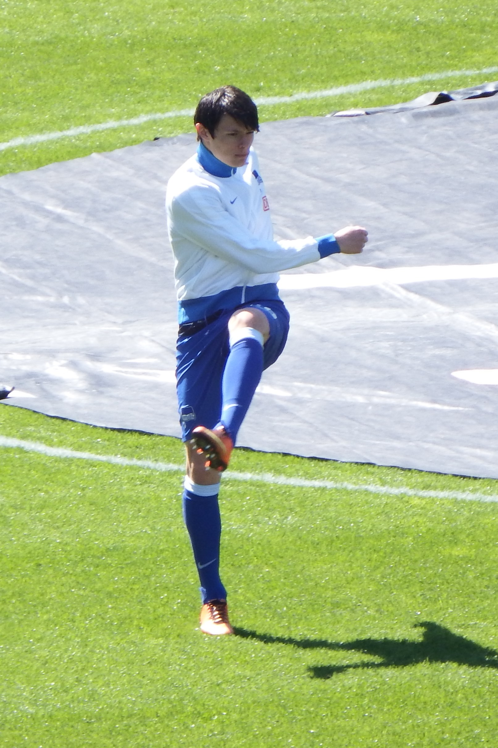 Nico Schulz as Player of Hertha BSC Berlin